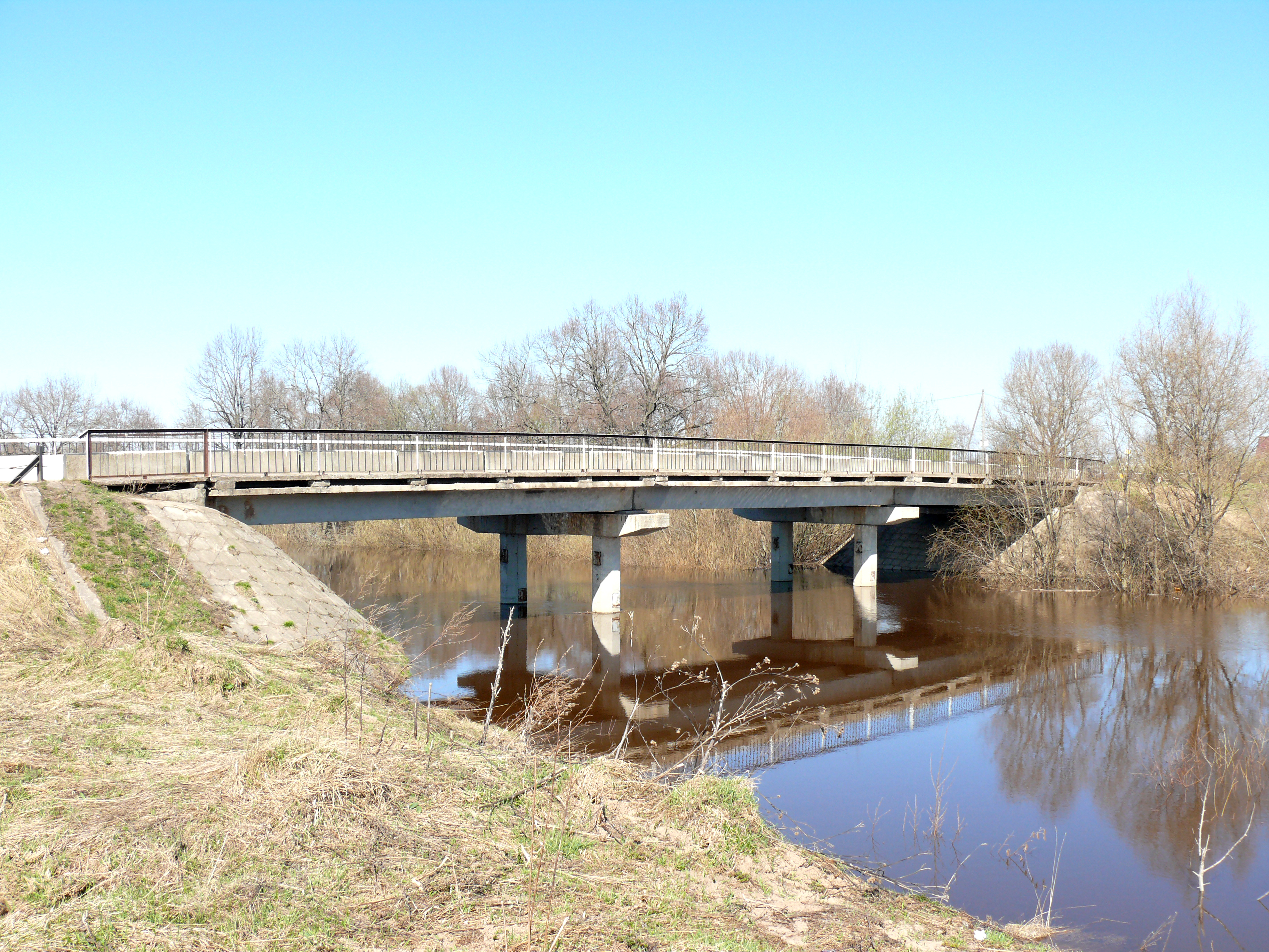 The bridge across Vishera river in Savino village. Novgorodsky district, Novgorod oblast, Russia